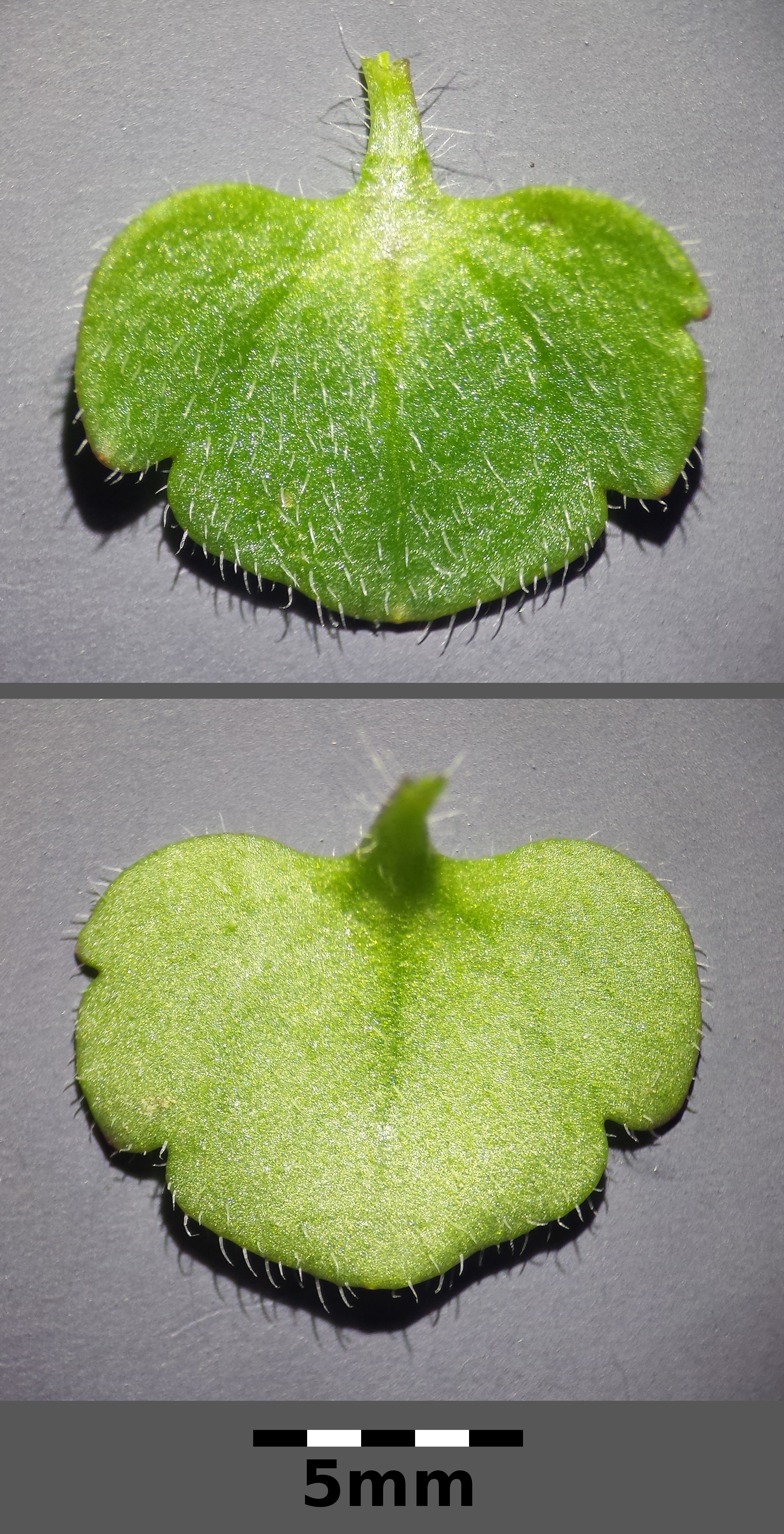 Bract: upper side and lower side Taxonym: Veronica sublobata ss Fischer et al. EfÖLS 2008 ISBN 978-3-85474-187-9 Location: near Niederhollabrunn, district Korneuburg, Lower Austria - ca. 350 m a.s.l. Habitat: border of a shrubbery